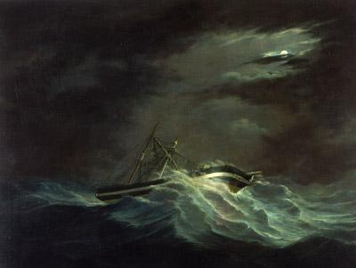 This thrilling portrayal shows the barque Sir Henry Pottinger during a cyclone in the Indian Ocean on 14 January 1848. The painting is both accurate and dramatic, with the moonlit rolling seas typical of Heard's style. The ship was returning from Calcutta when she encountered a storm off Ceylon. She lost her foremast, two upper sections of the main mast and the mizzen top mast, which covered the deck with a tangle of wreckage. The crew fought bravely to minimise damage, and the next day were able to use the salvaged remains to reconstruct the masts. At the same time they realised that the 14-year old apprentice had been lost. The barque SIR HENRY POTTINGER (1845), owned by the Brocklebank Line Ltd of Liverpool.[1]